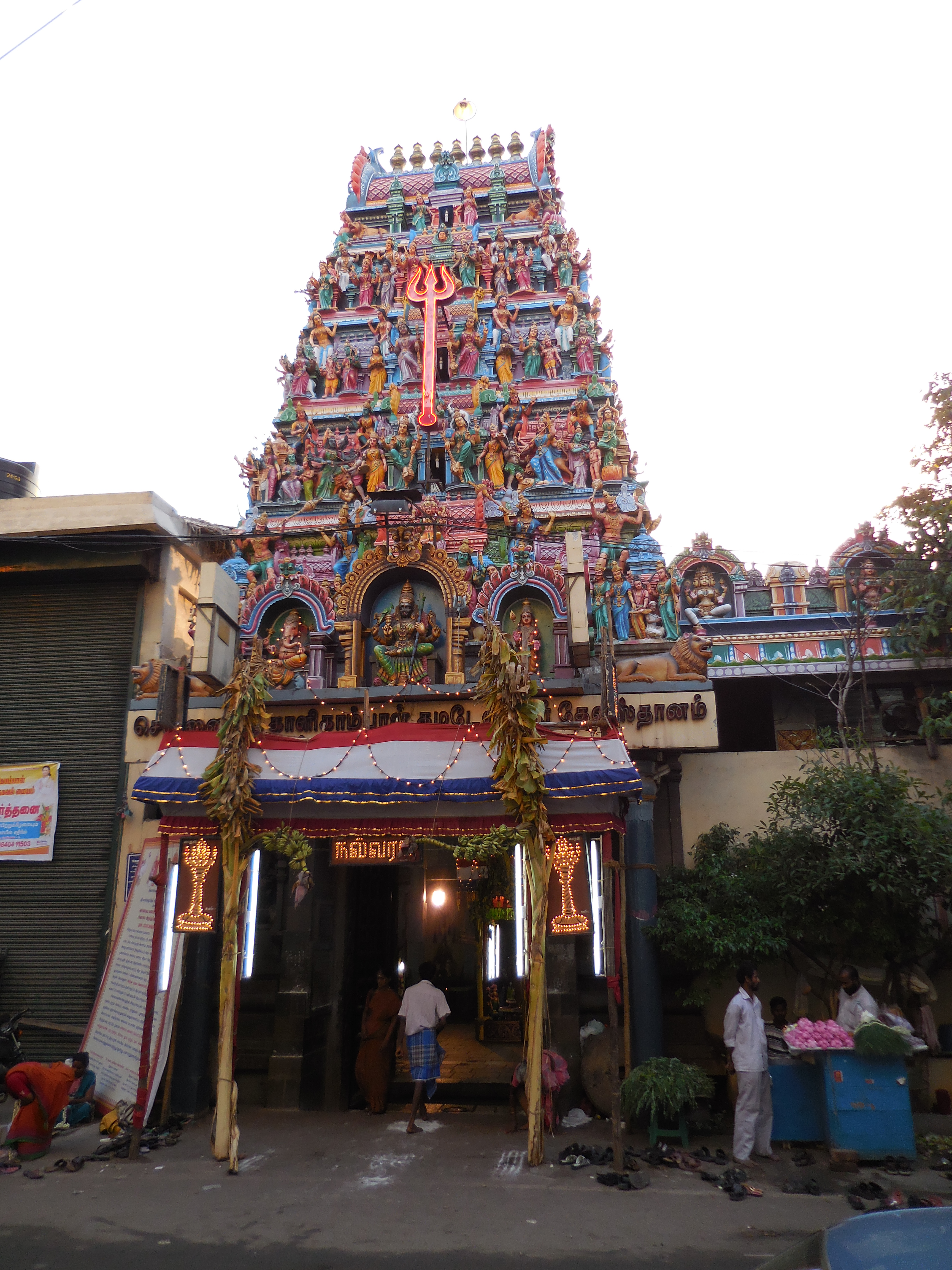 Main entrance of Kaalikaambaal Temple, Chennai, taken on 6 July 2014 at 6:06 pm